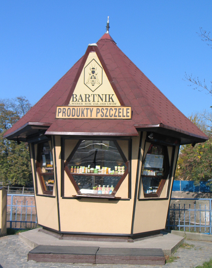 The stand (small shop) saling the products of beekeeping (produkty pszczele) in Wrocław, Poland